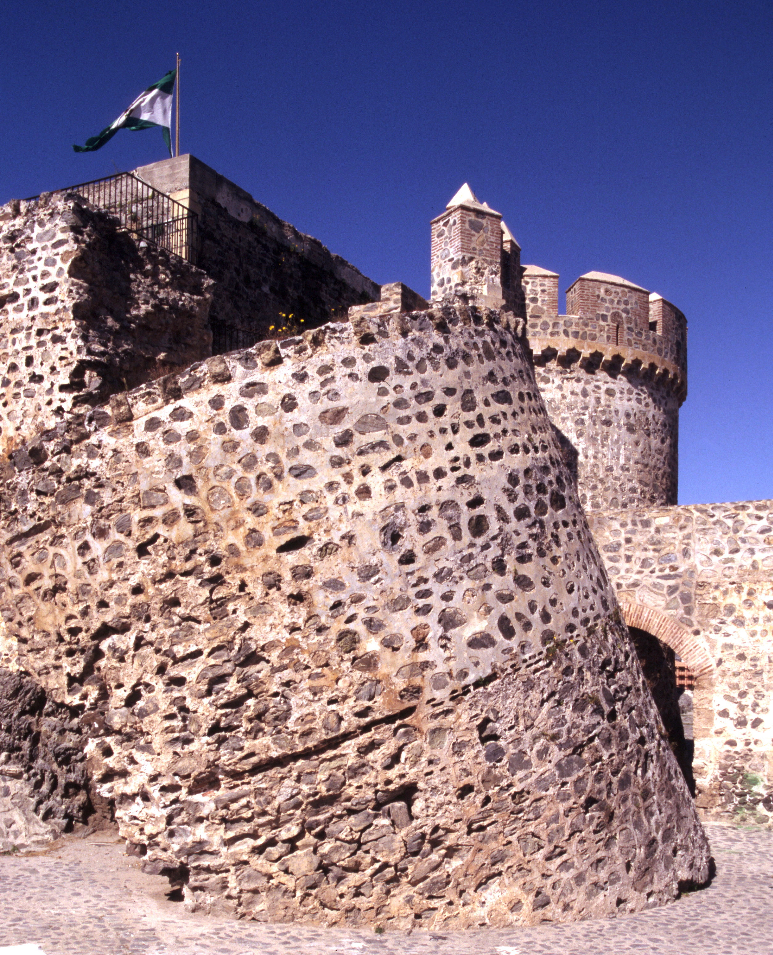 Almuñécar (Province of Granada, Spain): San Miguel Castle